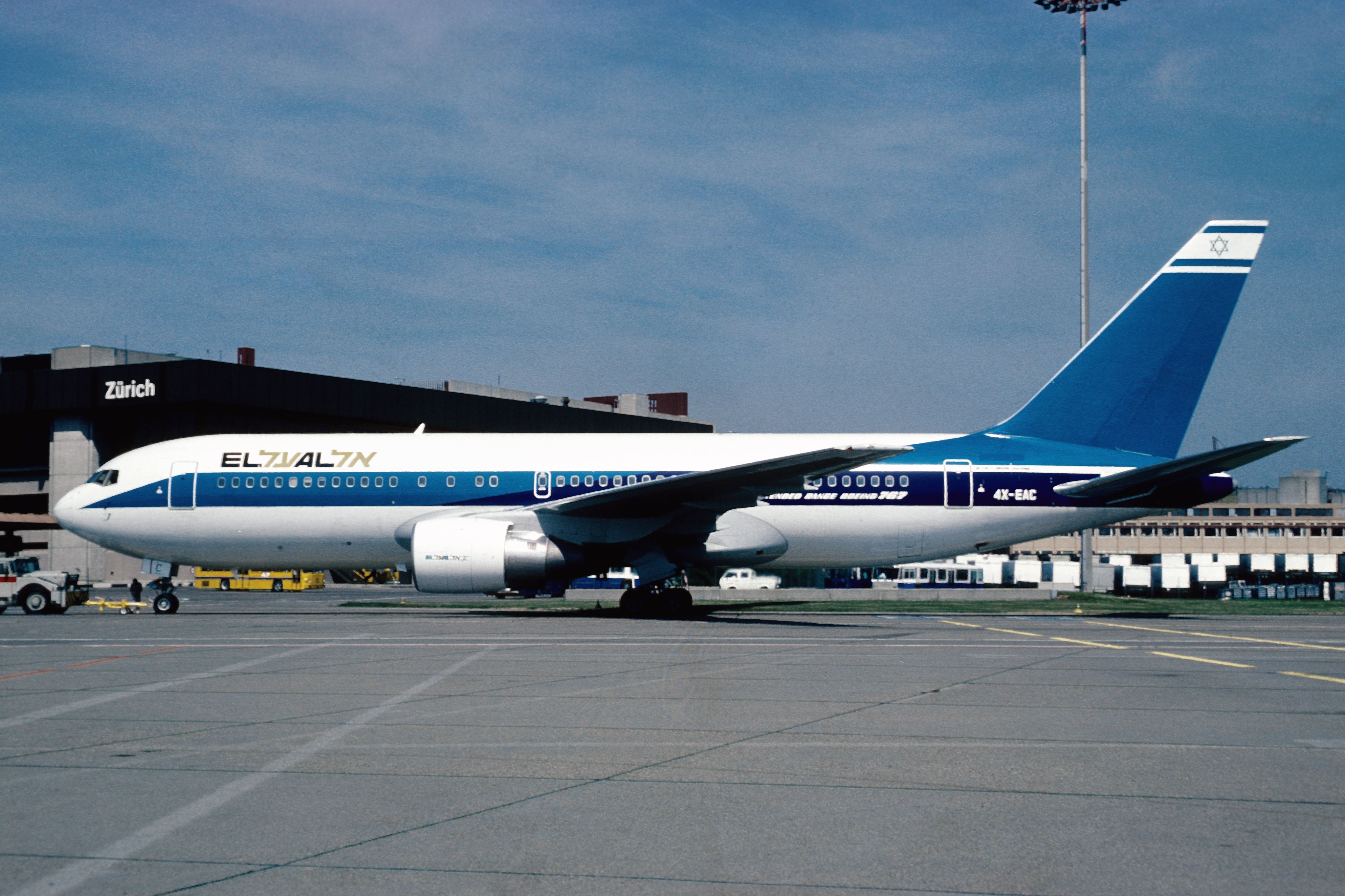 Old Pictures